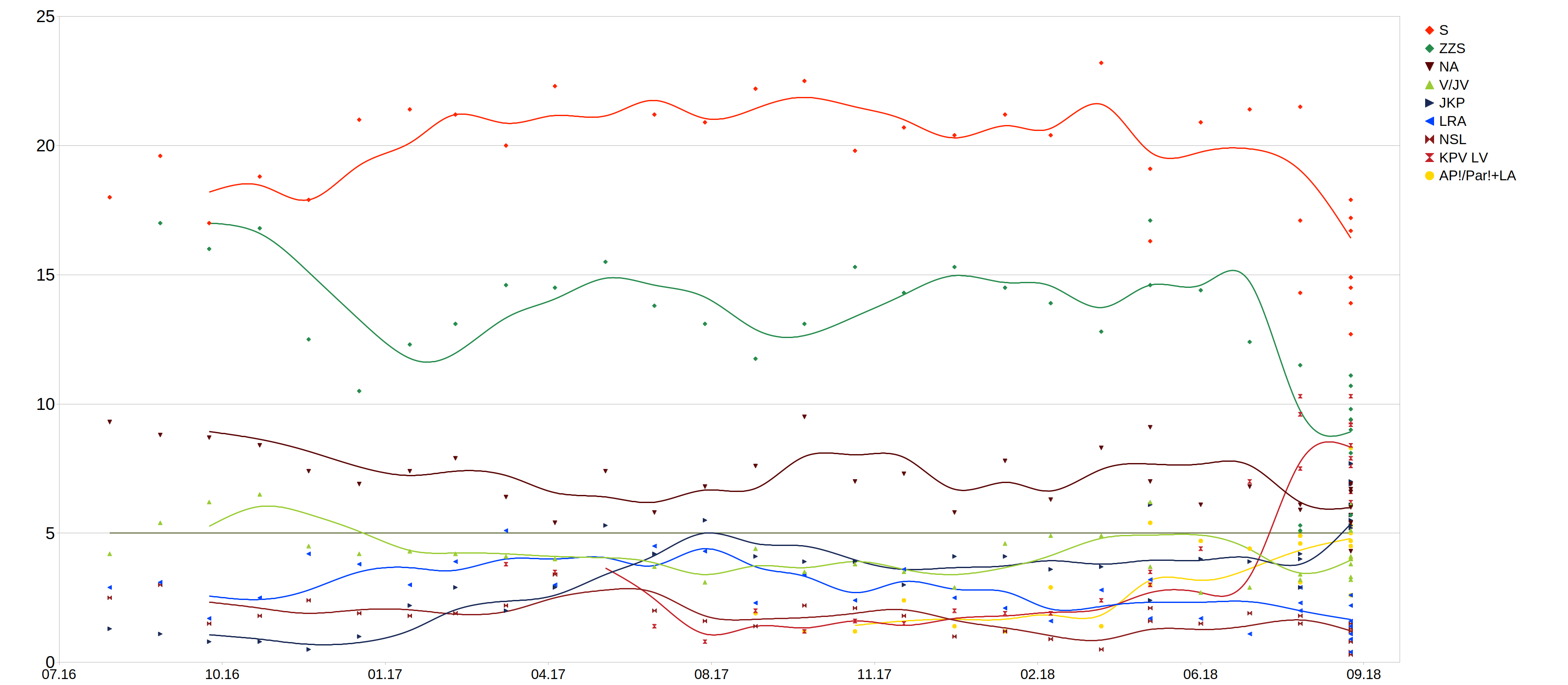 Opinion polling for Latvian 13th Saeima election, 2018.